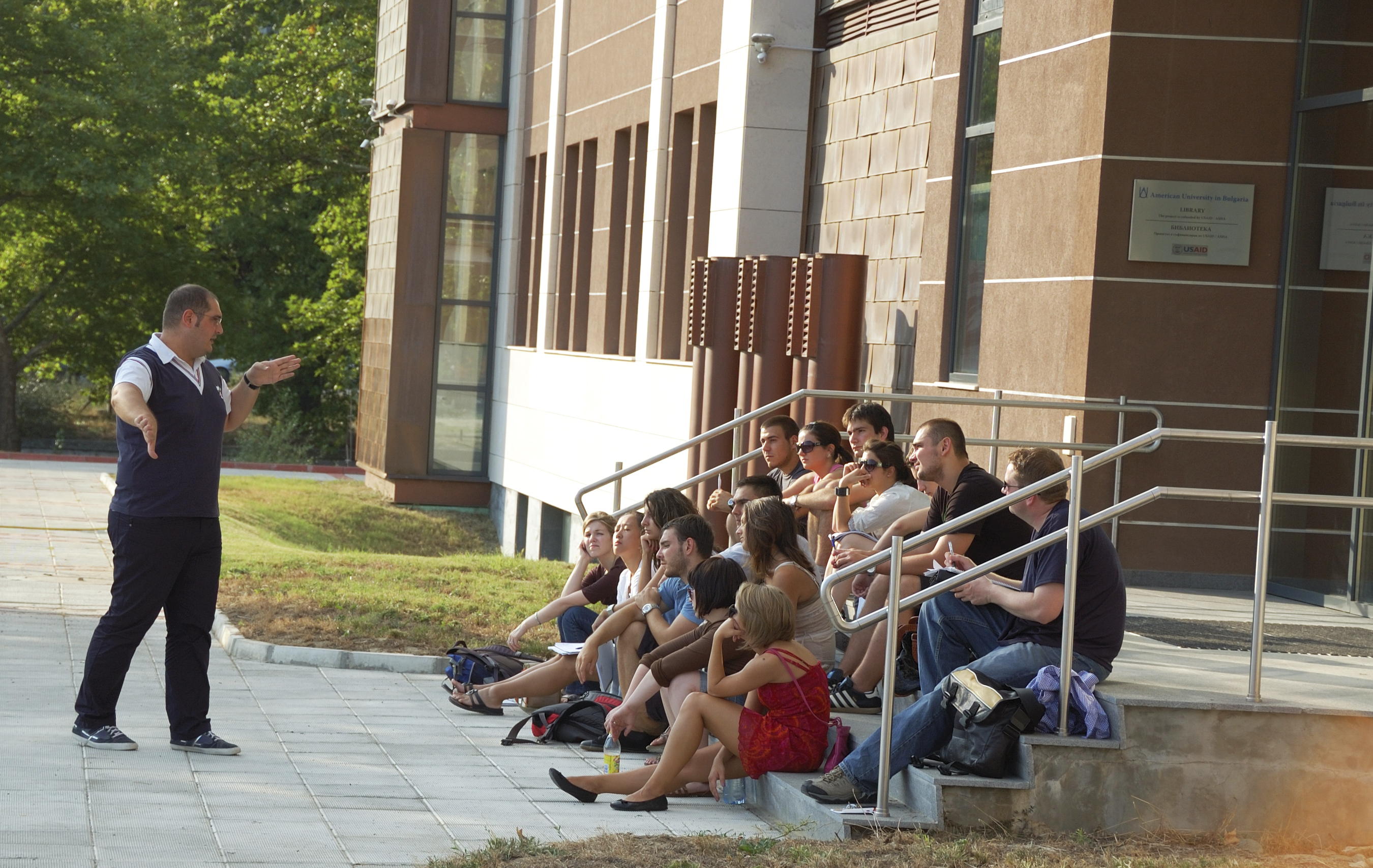 Interactive Teaching